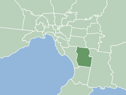 Map of Melbourne's Local Government Areas, highlighting City of Greater Dandenong